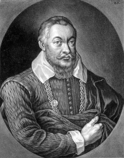 German historian, jurist, and diplomat Marquard Freher (1565-1614) by Johann Jacob Haid (1704-1767).